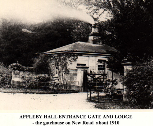 The New Road Gatehouse to Appleby Hall, Appleby Magna/Parva, Leicestershire. Taken C. 1910